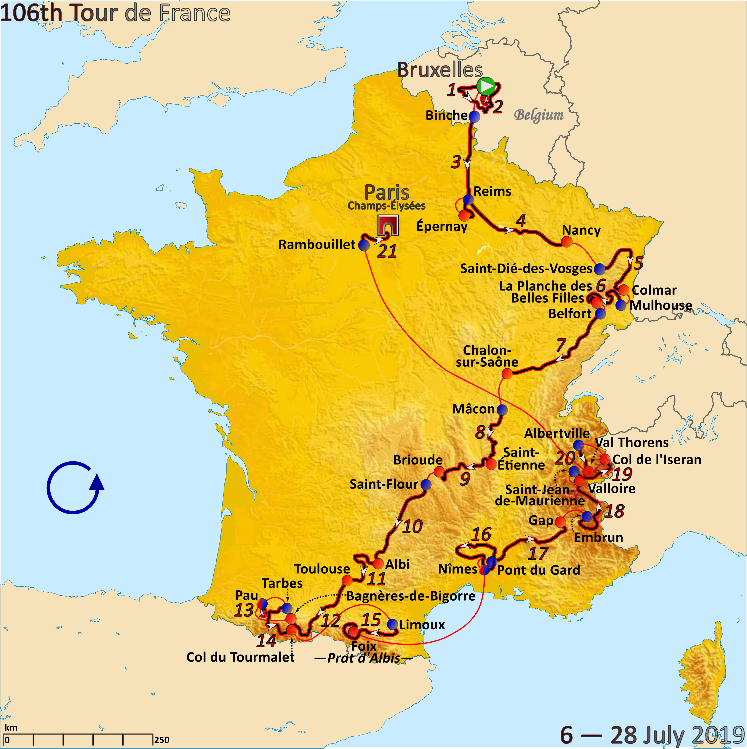 This map was created with accurate stage maps as published on letour.fr.